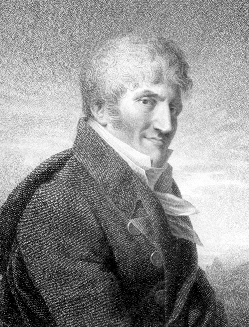 Portrait (engraving) of Edme-Joachim Bourdois de La Motte (14 September 1754 – 7 December 1835)